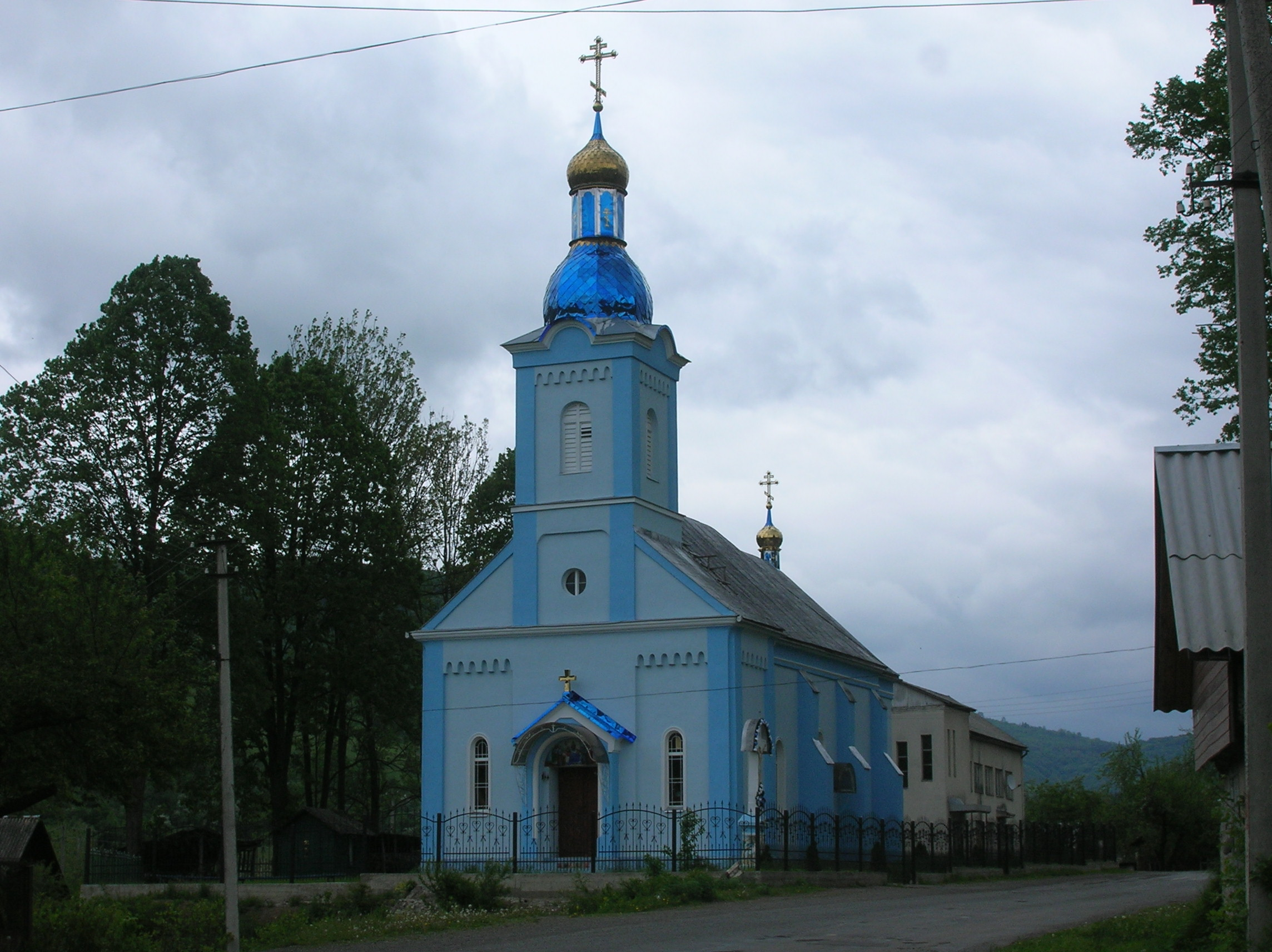 Stavne, Ukraine, church